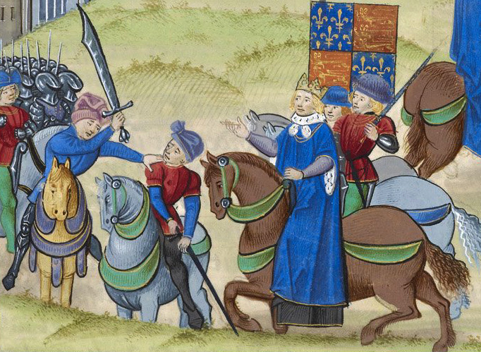 From The Death of Wat Tyler at the hands of Walworth, Mayor of London, with the young Richard II looking on. Library Royal MS 18.E.i-ii f. 175, dated c. 1385-1400. See File:DeathWatTylerFull.jpg for another version 19:08, 5 September 2005 Bkwillwm 350x233 (42504 bytes) (From The Death of Wat Tyler at the hands of Walworth, Mayor of London, with the young Richard II looking on. The image is a close up of a larger medieval image. PD-old )